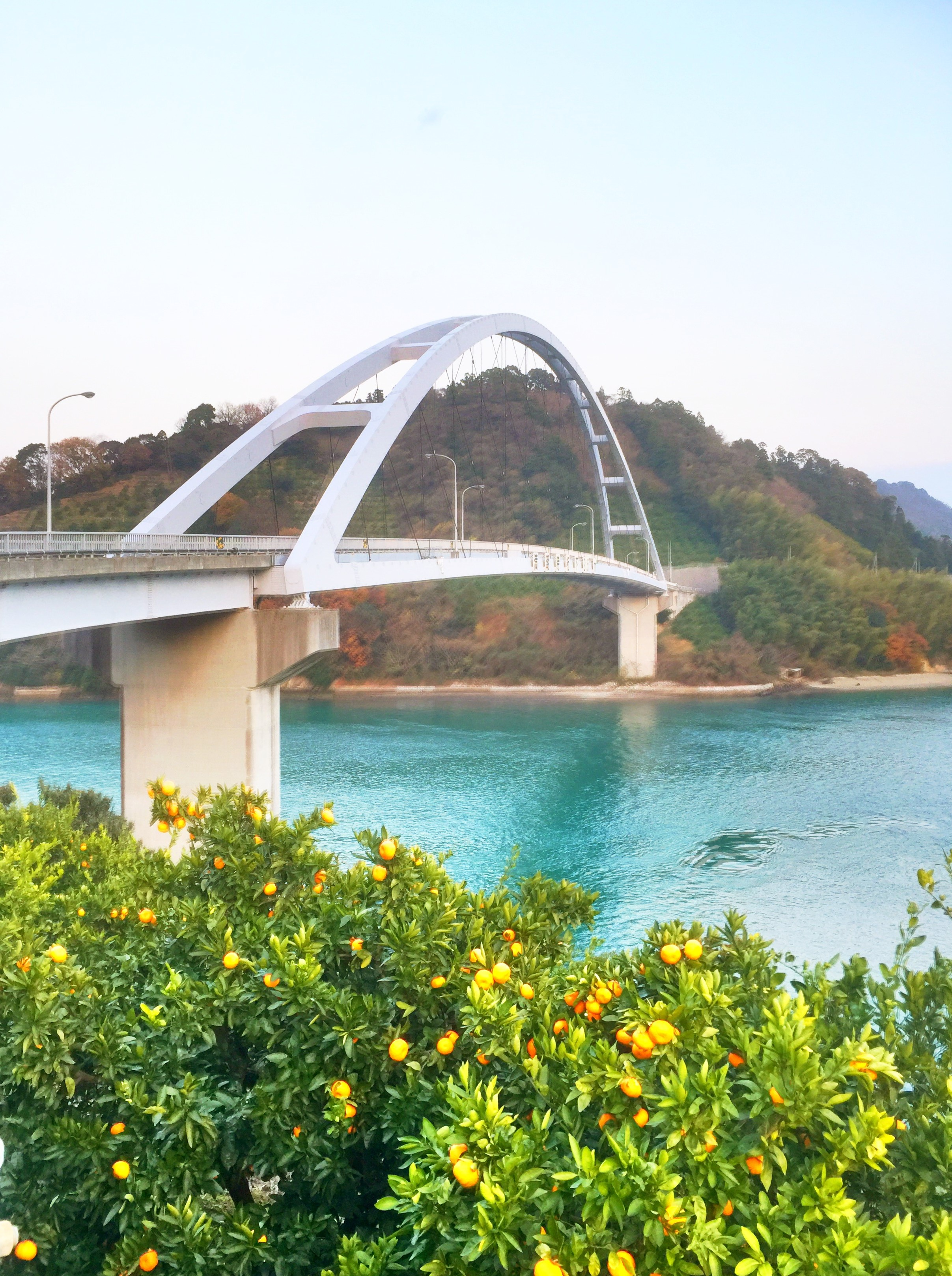 Nielsen-Lohse Bridges "nakano-seto-oohashi" kure-city JAPAN